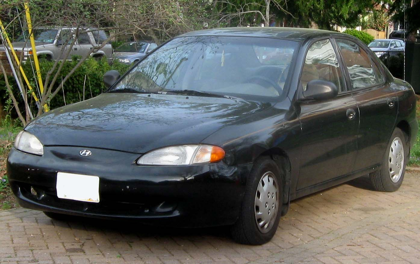 1996-1997 Hyundai Elantra photographed in Annapolis, Maryland, USA.